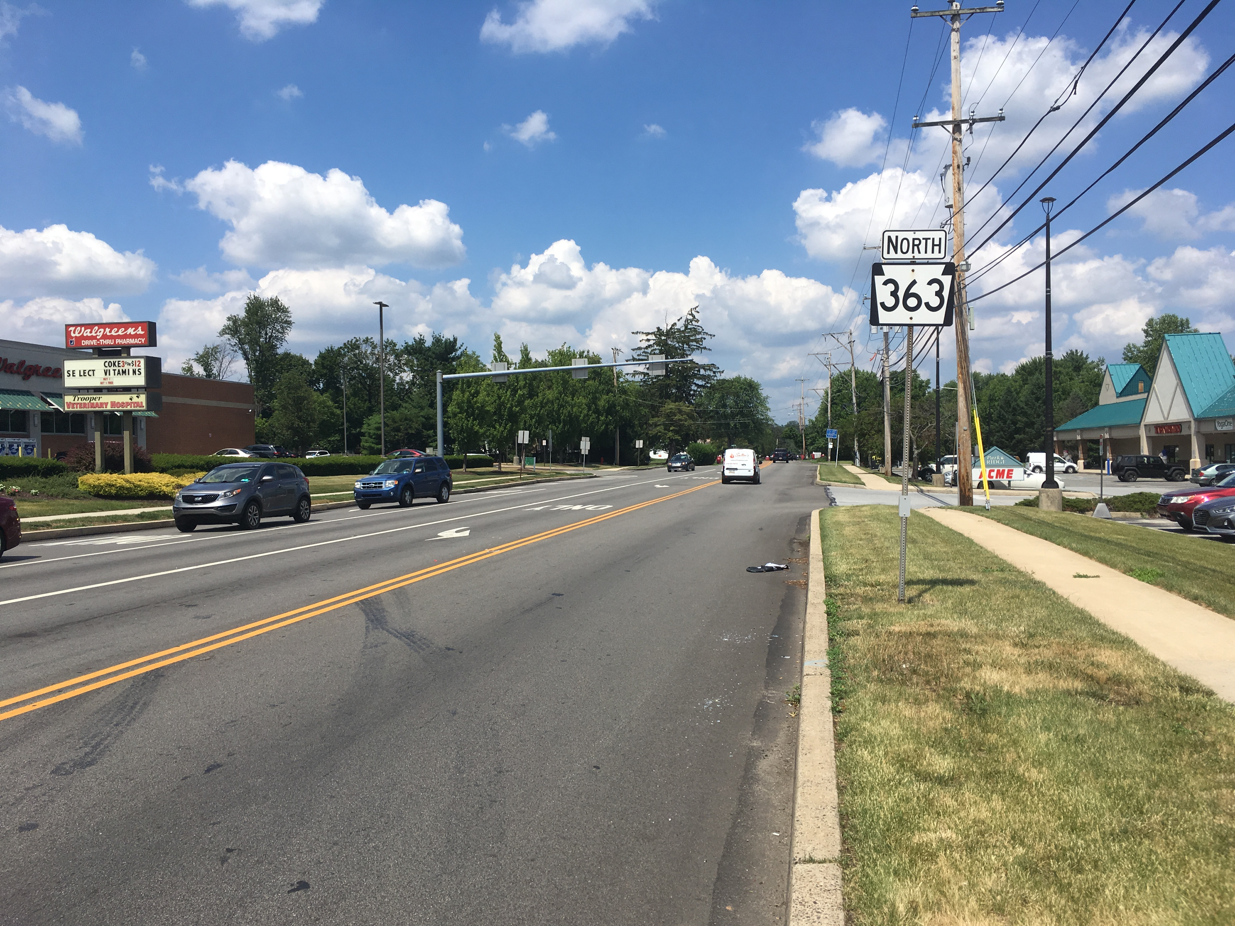 Northbound Pennsylvania Route 363 (Park Avenue) past the intersection with Ridge Pike in Lower Providence Township, Pennsylvania.